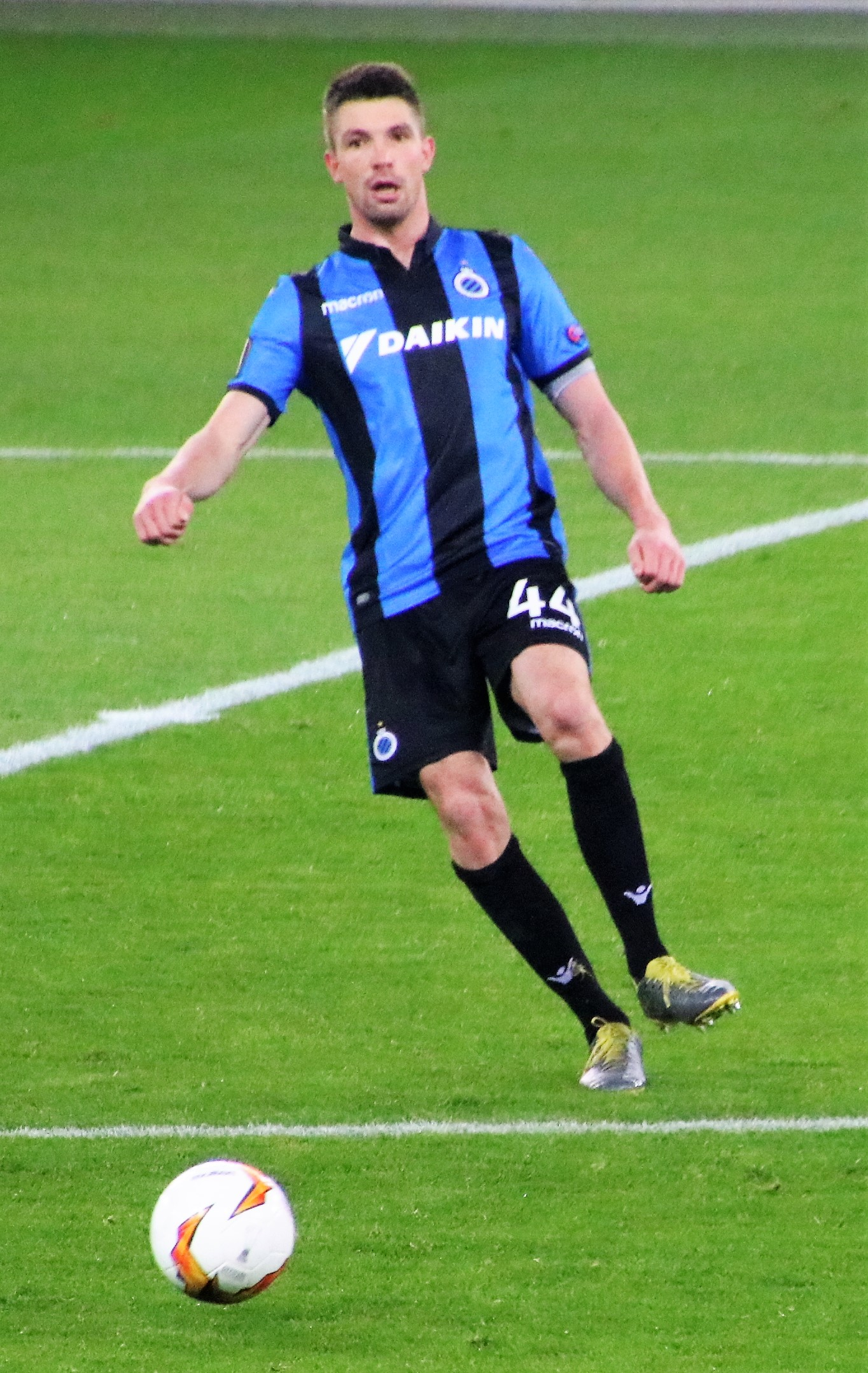 UEFA Euro League round of 32